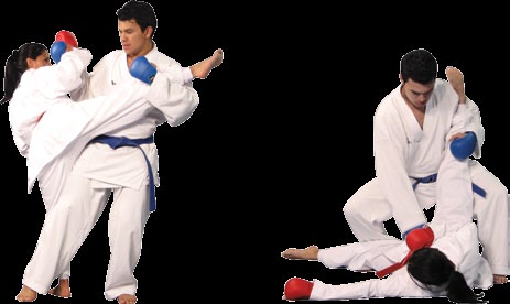 kumite